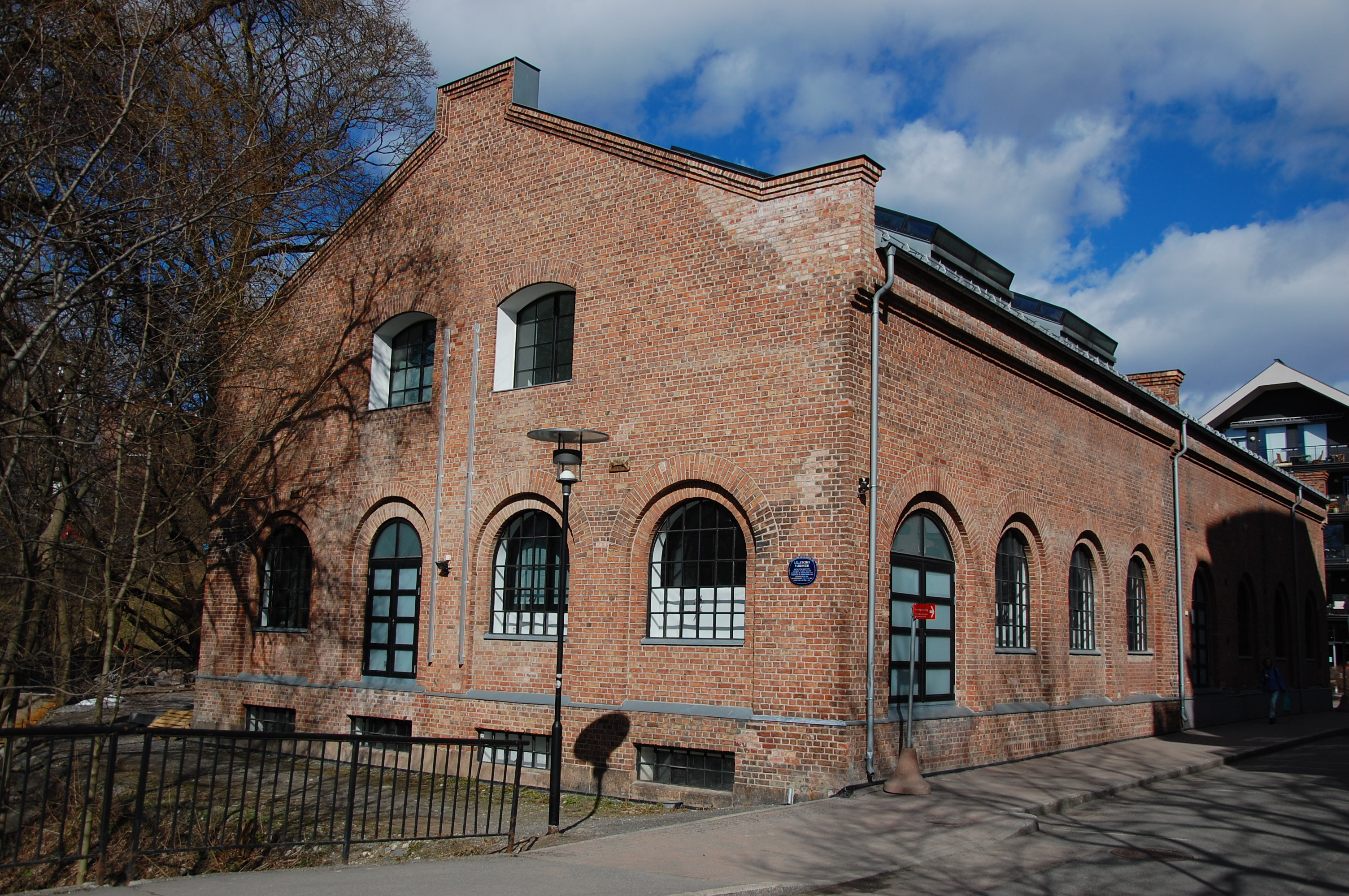 Buildings used by former factory Denofa og Lilleborg fabrikker in Ivan Bjørndals gate, Oslo, Norway.